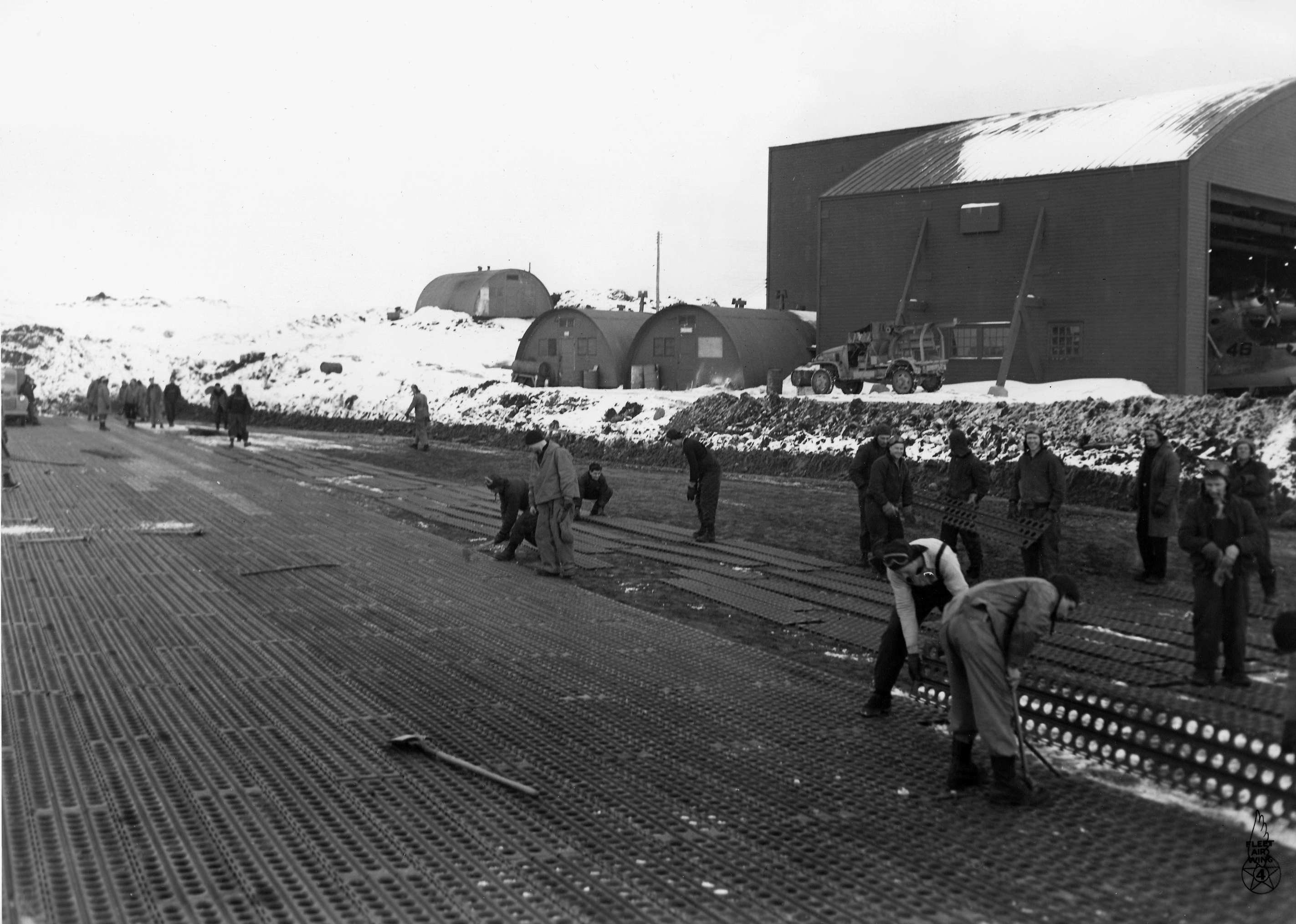 U.S. Navy "SeaBees" laying matting for a hangar parking area for Patrol Squadron VP-42 on Amchitka Island, Alaska (USA), on January 1944.